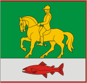 Flag of Priekule (Lithuania)